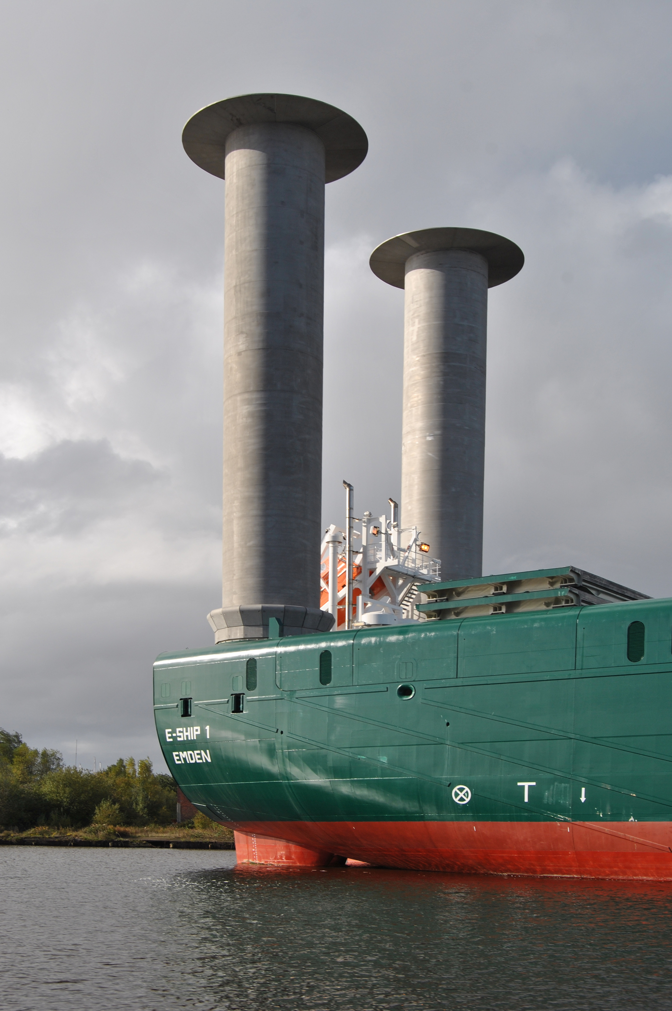 The both Flettner rotors at the bow of the German RoLo cargo ship E-Ship 1 call sign: DGFN2 IMO: 9417141 MMSI: 218108000